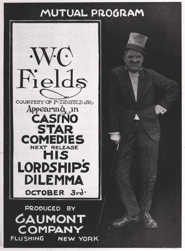 Advert for His Lordship's Dilemma